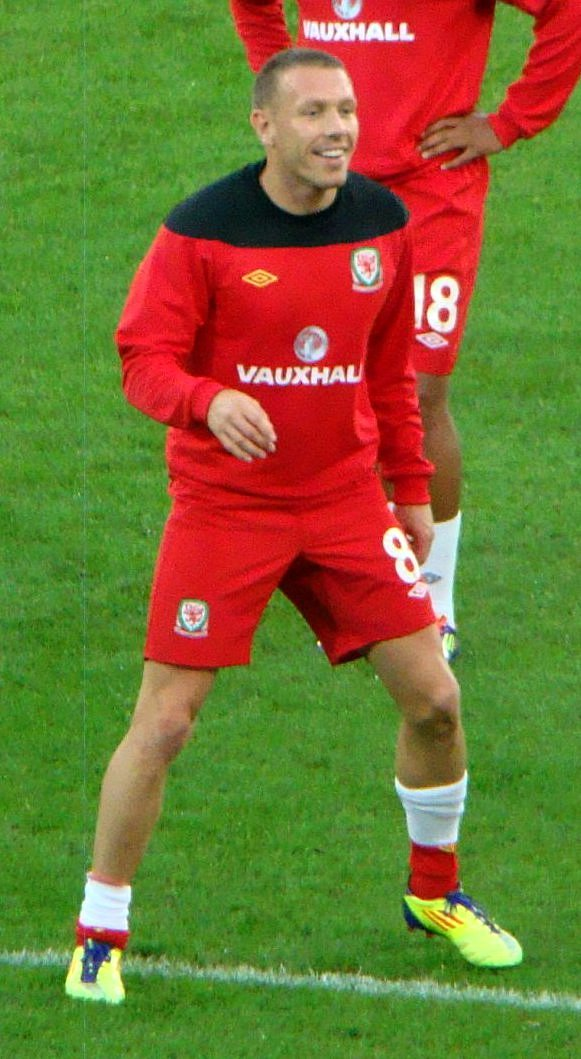 Craig Bellamy of Wales. 02/09/11 Wales V Montenegro, Euro 2012 qualifying, Cardiff City Stadium, Cardiff, Wales